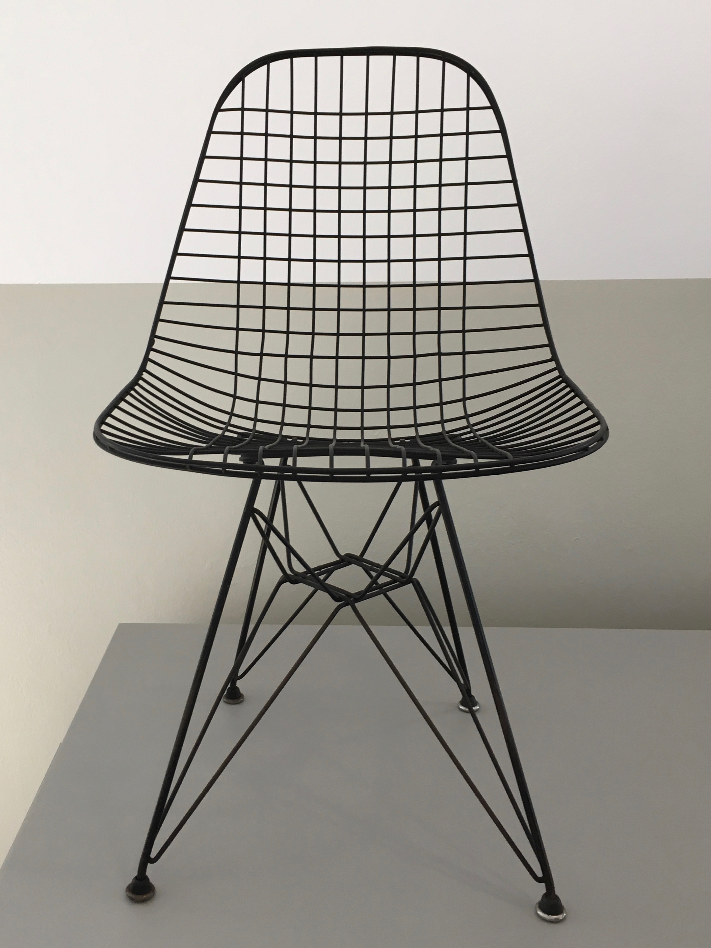 Charles and Ray Eames - Bucket chair - 1951 - Collection Museum Boijmans Van Beuningen, inv. nr. V 1051 (KN&V). Manufactured by Herman Miller Furniture Company.